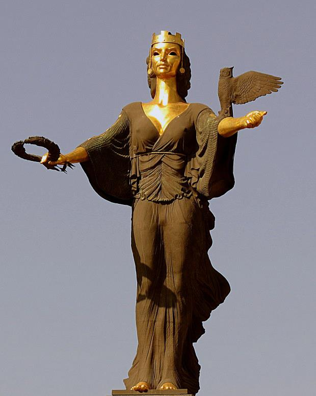 The Statue of Sveta Sofia